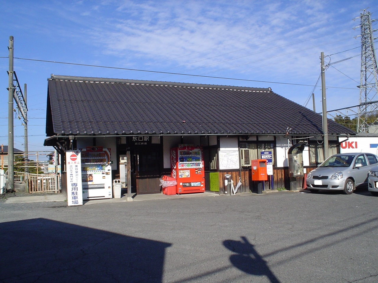 Minakuchi station in shiga pref, japan